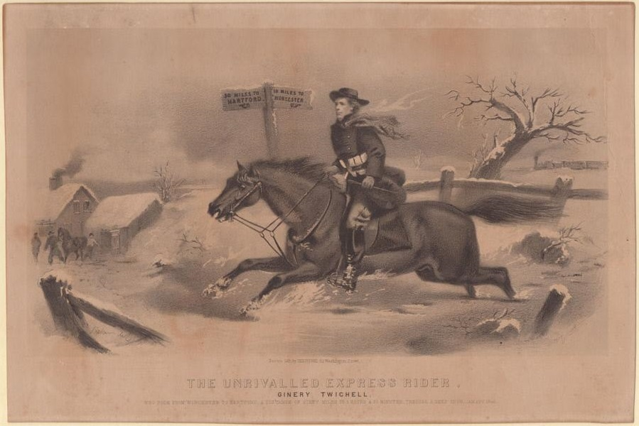 "The Unrivaled Express Rider, Ginery Twichell" Lithograph created circa 1860. The caption reads: "The Unrivaled Express Rider, Ginery Twichell, Who rode from Worcester to Hartford, a distance of sixty miles in 3 hours & 20 minutes, through a deep snow, Jan. 23rd, 1846."